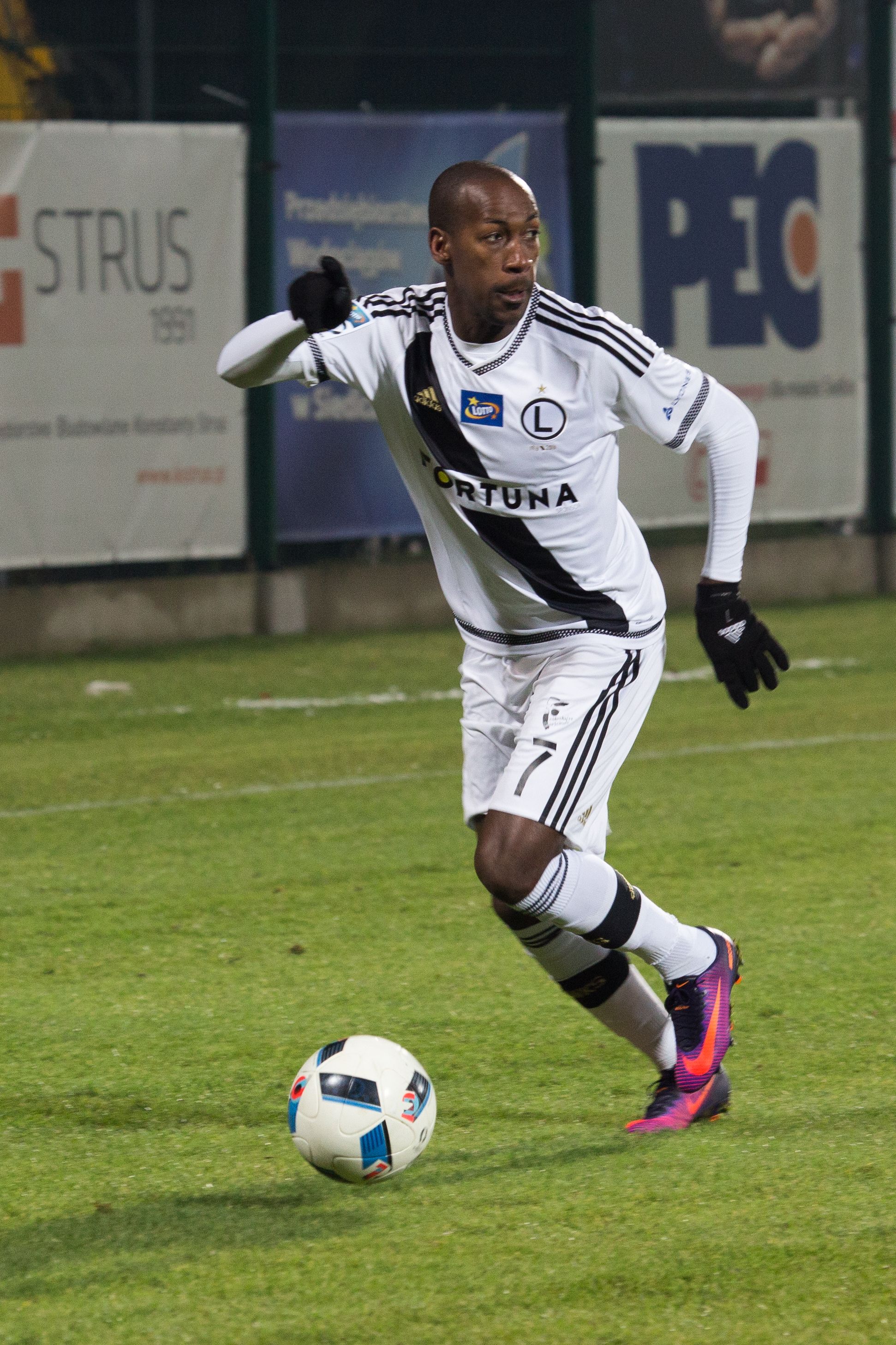 Steeven Langil during match against Pogoń Siedlce